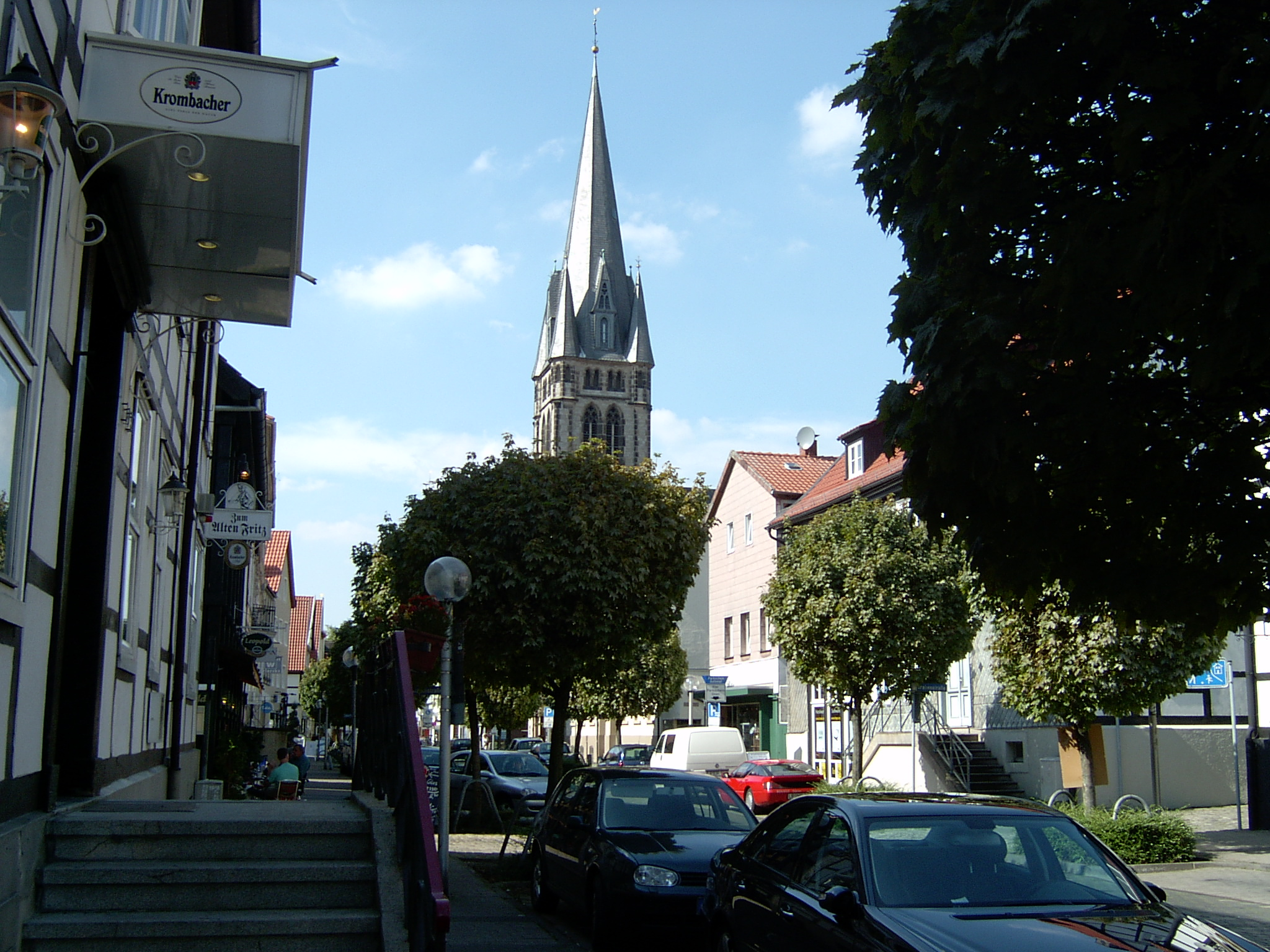 Martin Luther Church in Detmold